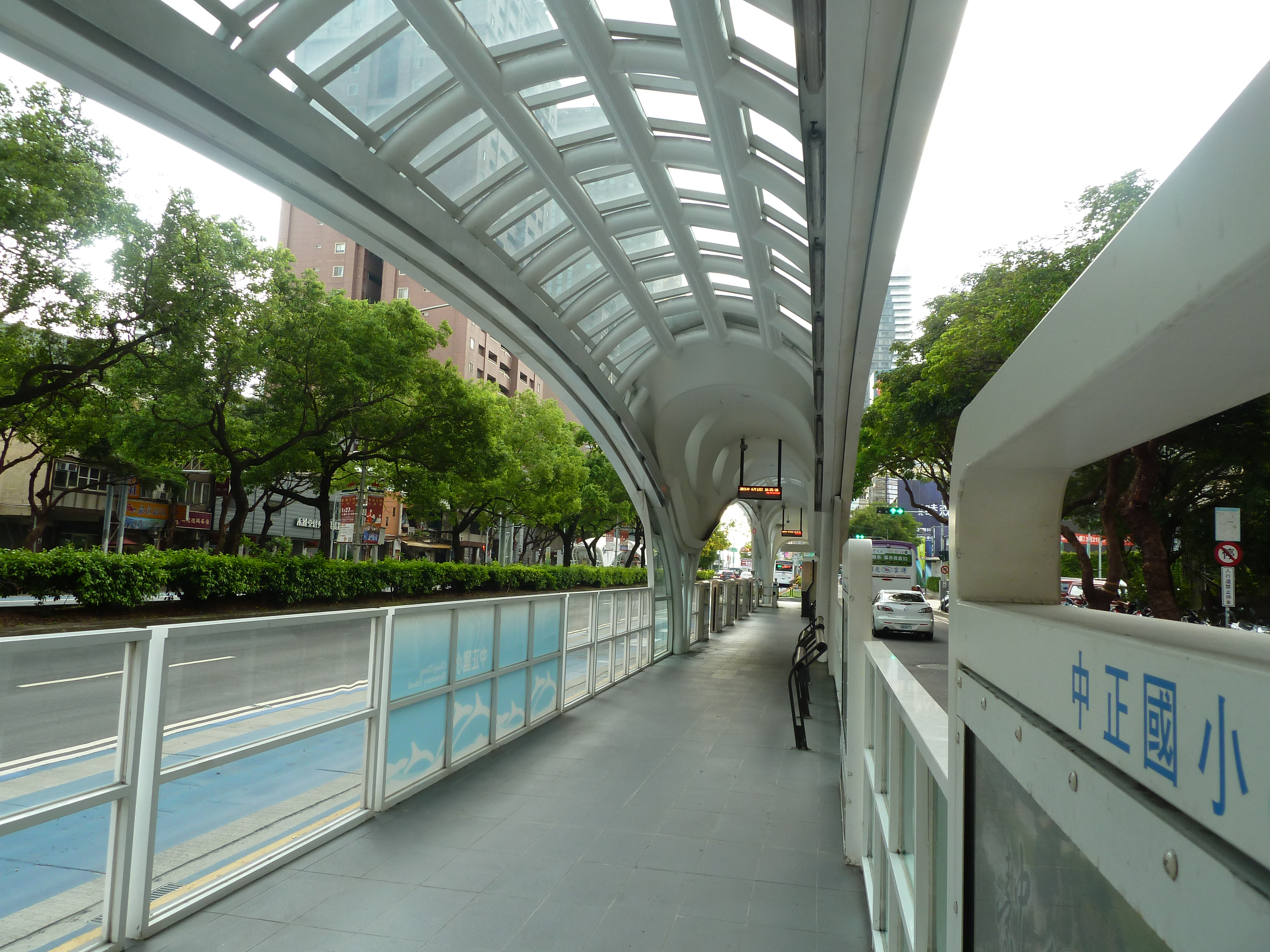 Taichung BRT Chung-Cheng Elementary School Station Platform No.2